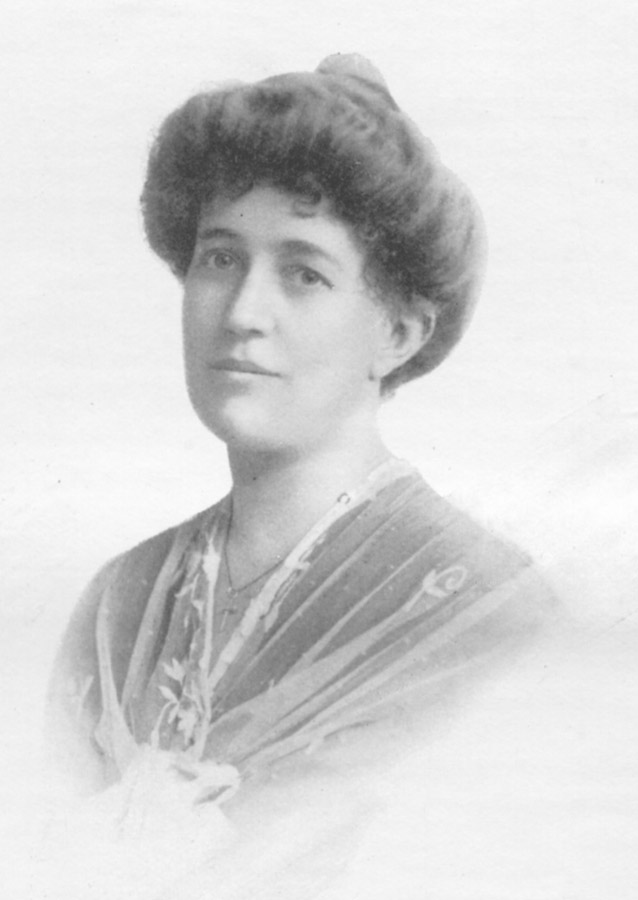 Johanna Brandt nee van Warmelo. 18 November 1876 in Heidelberg / Transvaal–13 January, 1964 in Nuweland) was a South African Propagandistin of African nationalism, spy in the Boer War, prophetess and writer.